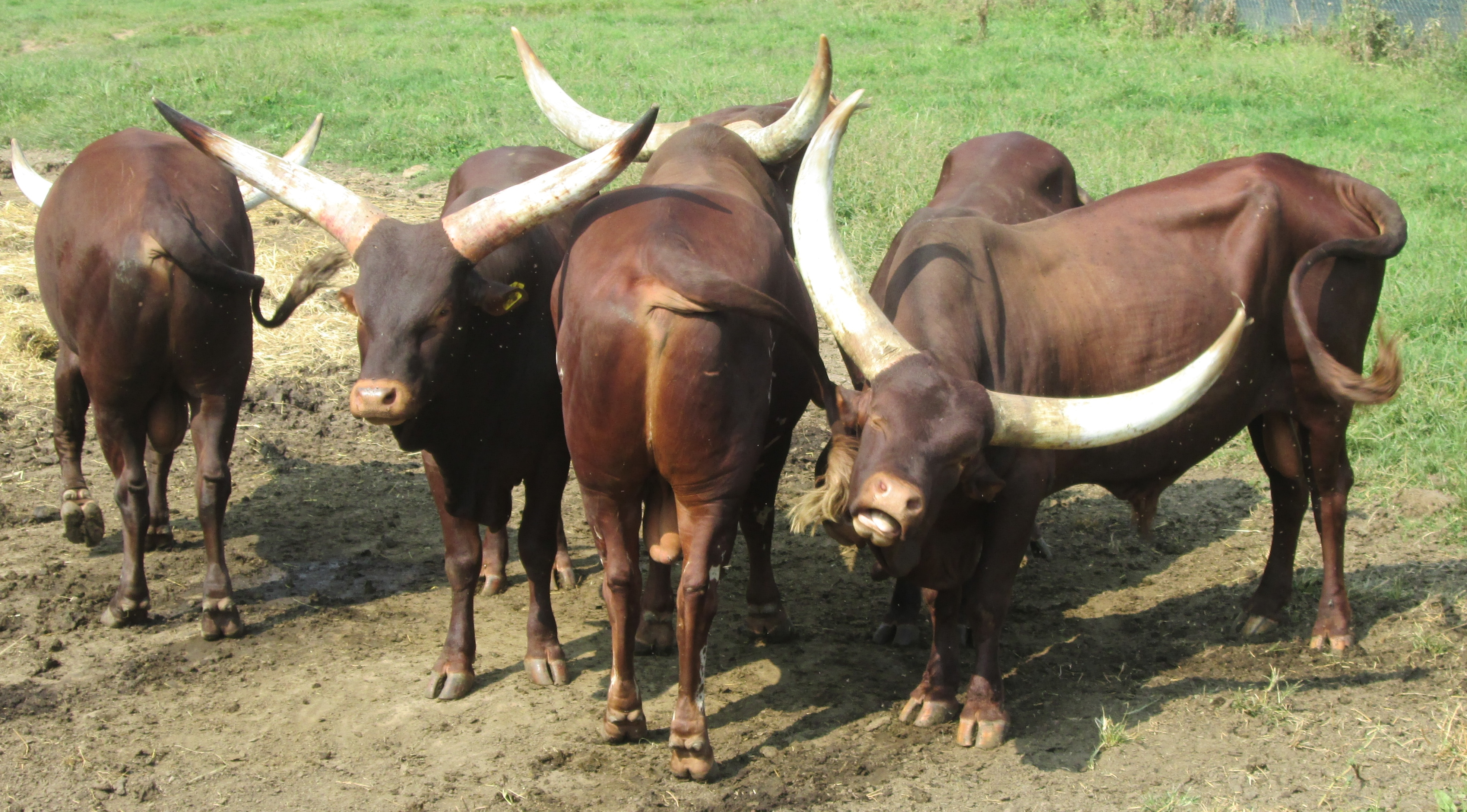 Ankole-Watusi in Pombia Safari Park ITALY